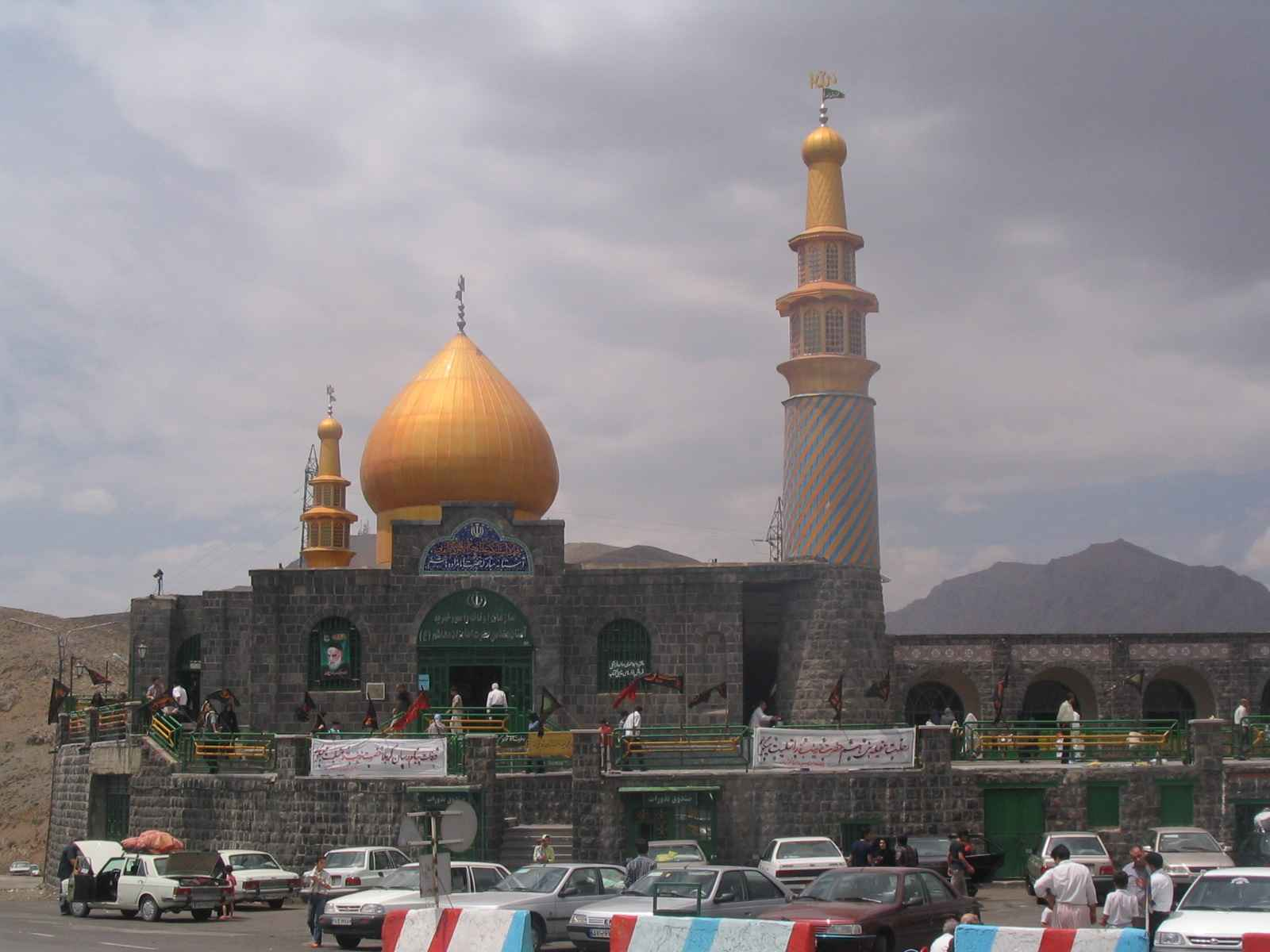 Imamzadeh Hashem Shrine, Mazandaran, Iran 2006